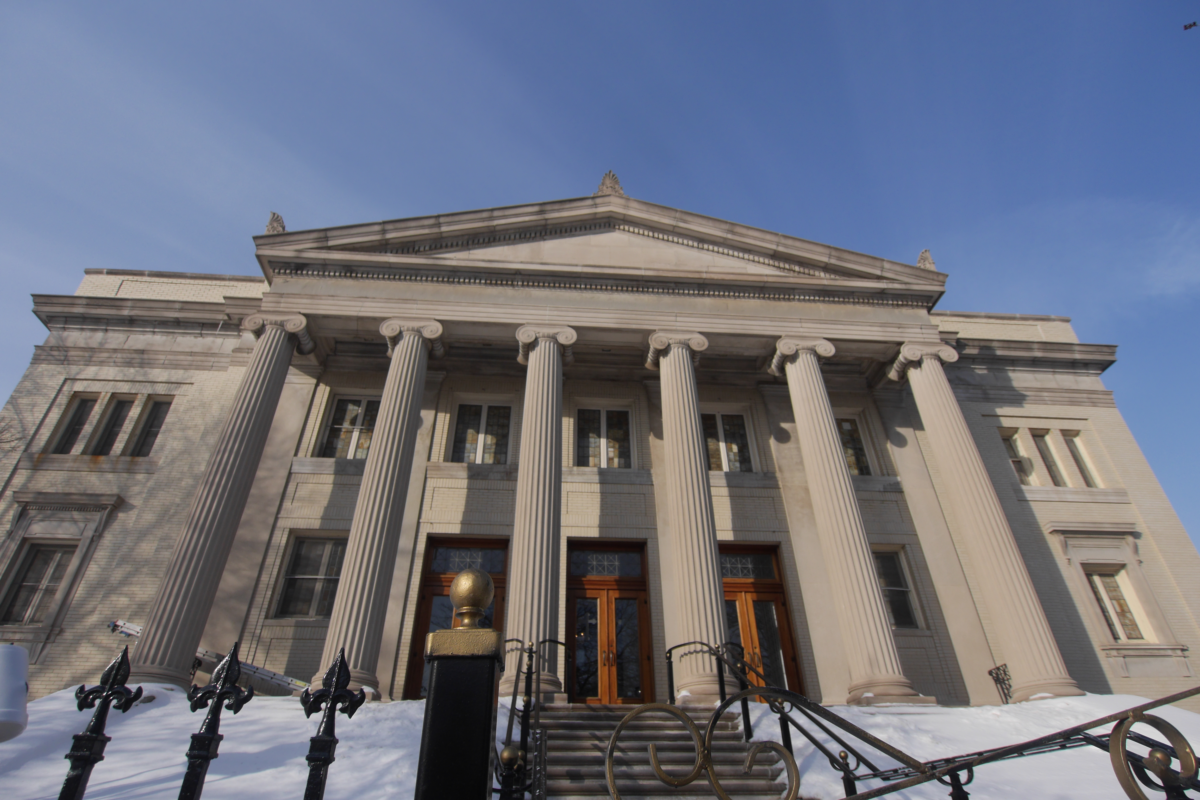 Holy Apostolic Catholic Assyrian Church Of The East-St. George Cathedral, formerly Sixteenth Church of Christ Scientist, 7201 N Ashland Ave Chicago, IL 60626